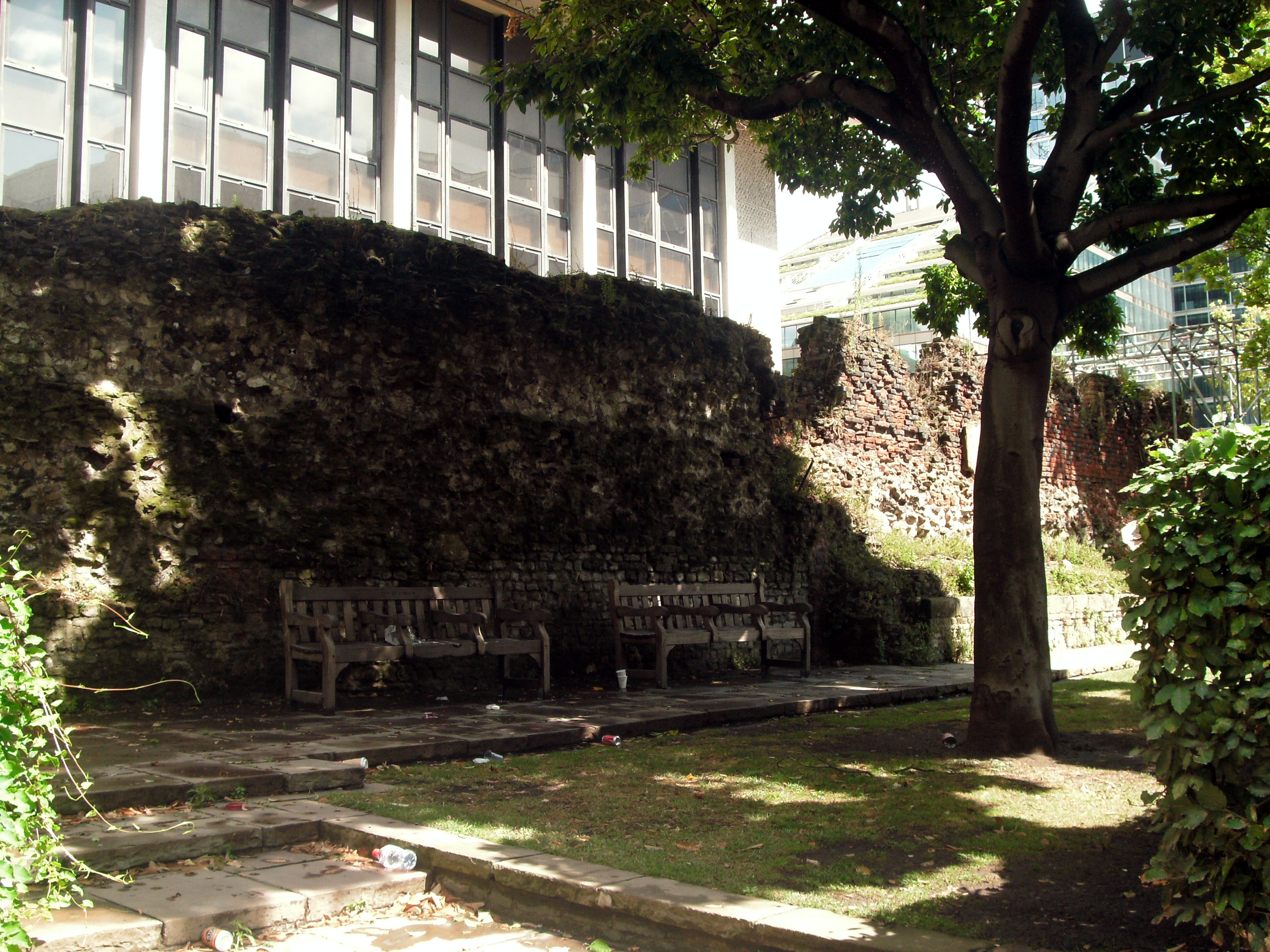 St Alphage Garden, City of London. The main garden, viewed from the south west.